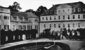 Reifensteiner Schule Löbichau Wirtschaftliche Frauenschule Löbichau in Thüringen 1908-1930 Besitzerin Deutsche Adelsgenossenschaft. Dem Reifensteiner Verband seit 1908 angeschlossen. Freya von Moltke, geb. Deichmann besuchte die Schule ab April 1928 für ein Jahr.